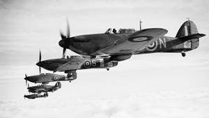 Six Fleet Air Arm Hawker Sea Hurricanes operating from Yeovilton, flying in formation.